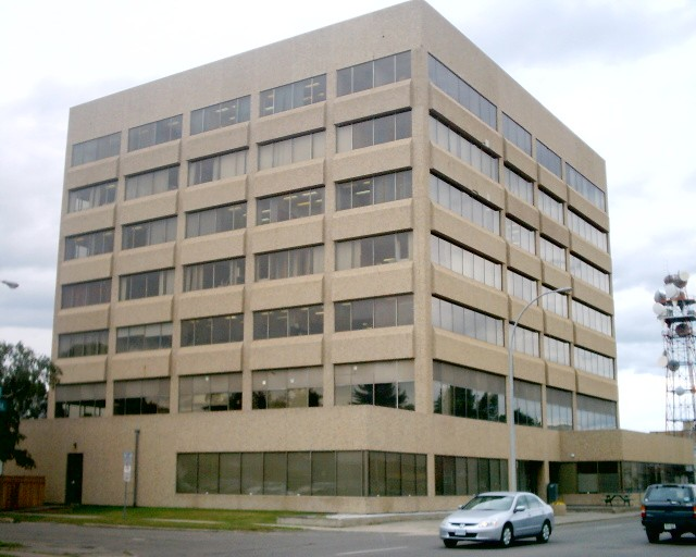 West Arthur Place in Thunder Bay, Ontario